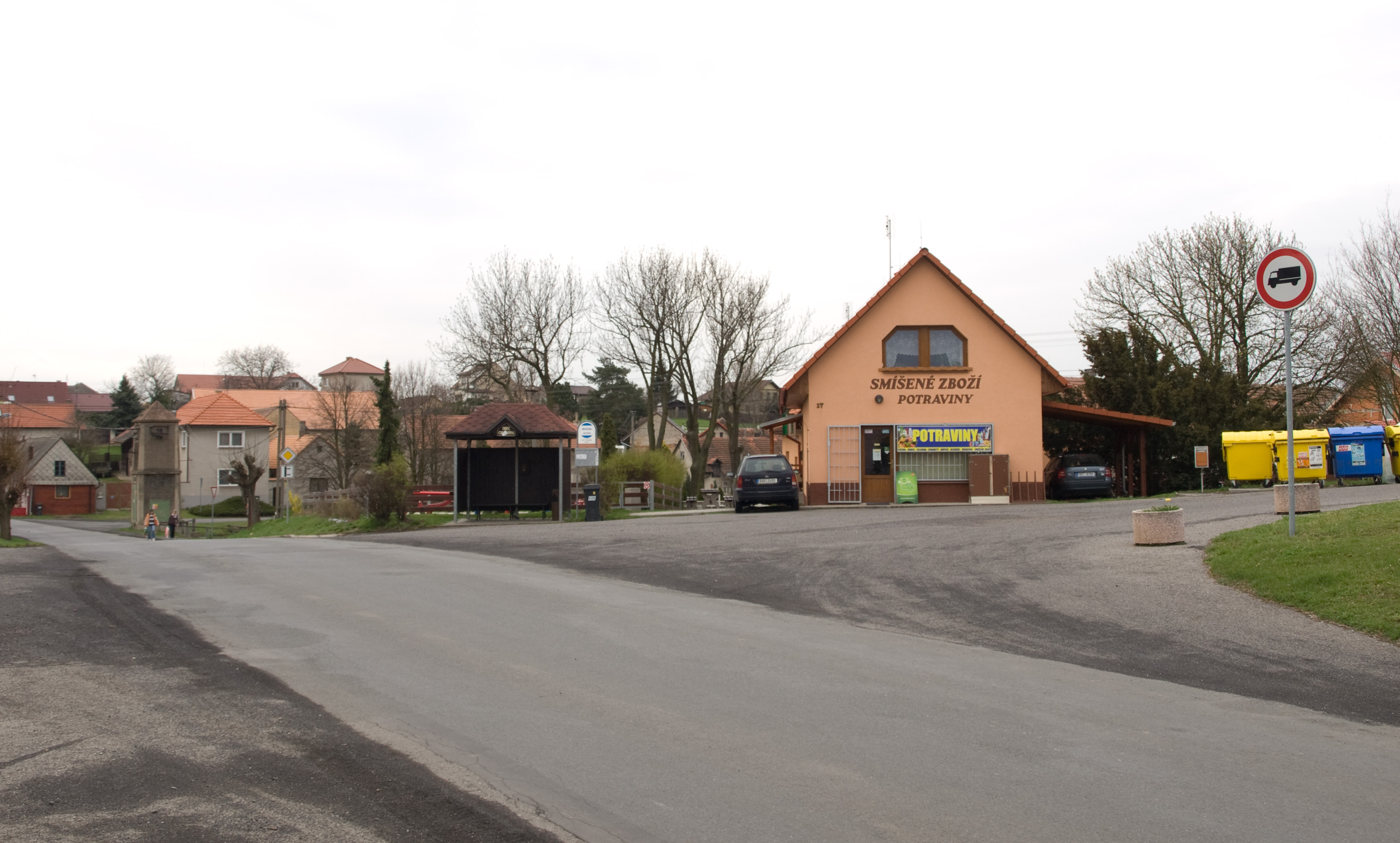 Chlustina, okres Beroun, Středočeský kraj, Česká republika